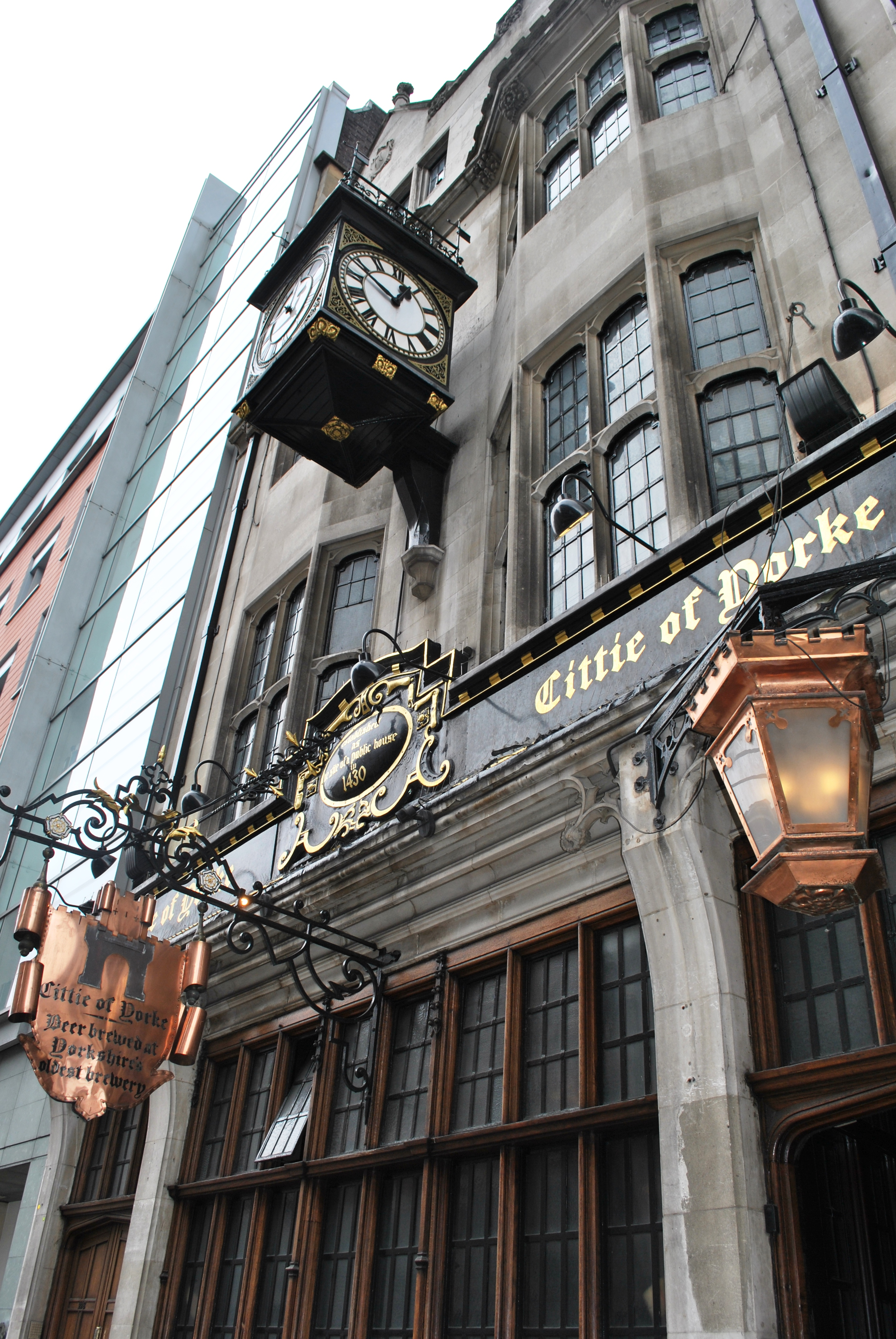 Cittie of Yorke